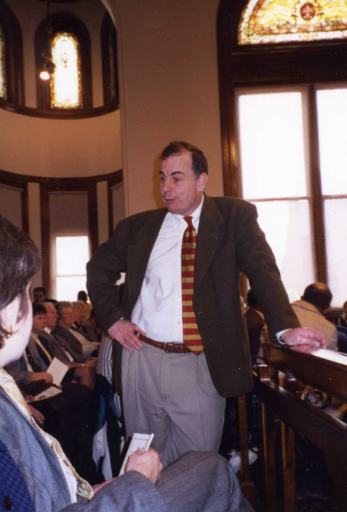 Paul Sullivan at City Council Inauguration Ceremony, Lowell City Hall. Sullivan died on September 9, 2007